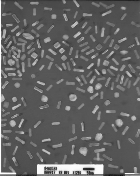 Transmission electron micrograph of gold nanorods, along with a small fraction of impurities.